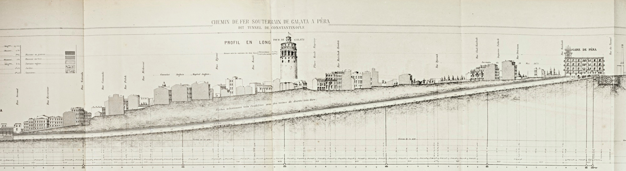 the profile of the underground funicular "Tünel" in Istanbul, Turkey.